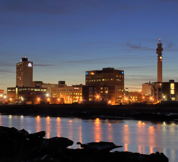 Moncton skyline at night.